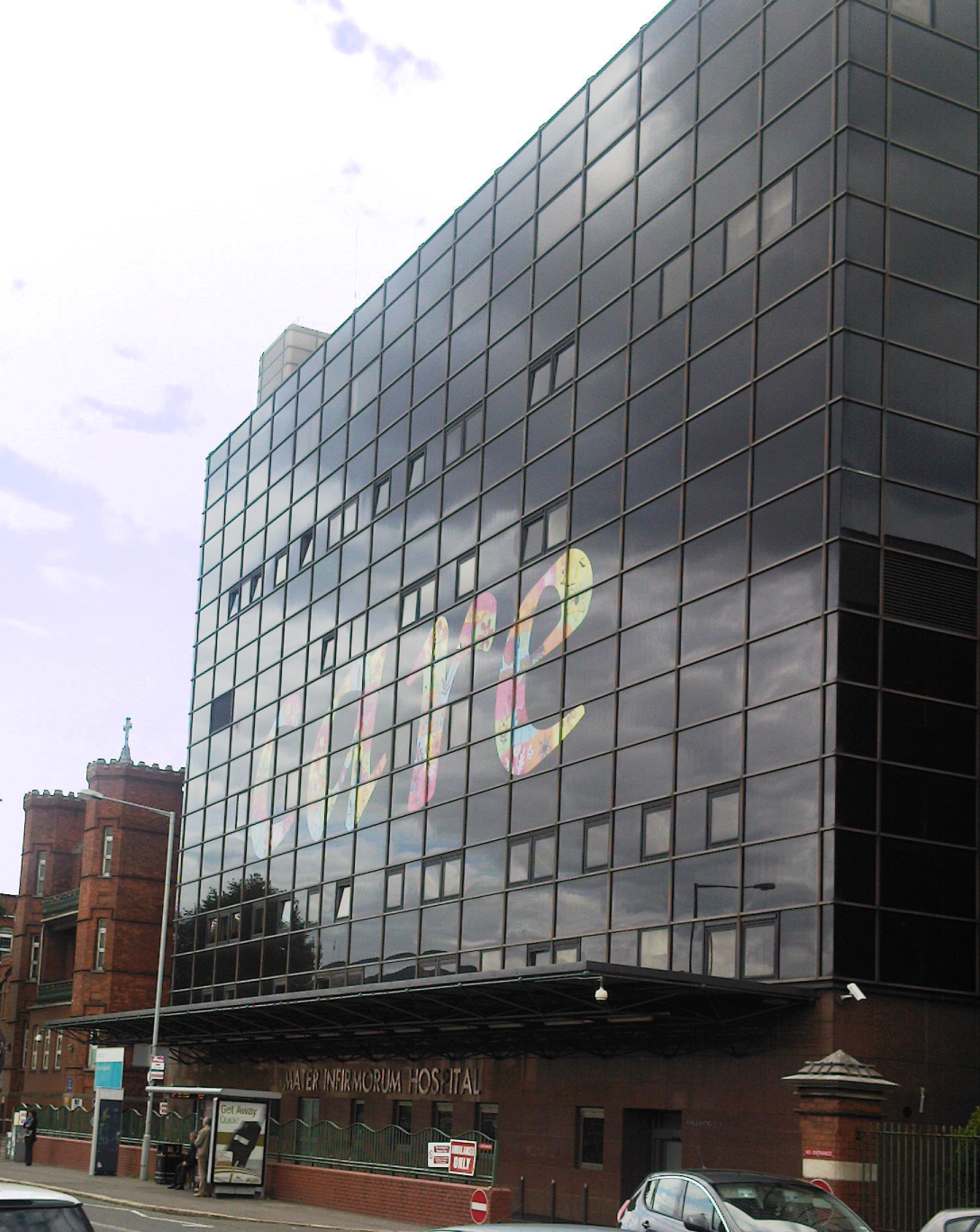 Mater Infirmorum Hospital, Belfast, August 2011